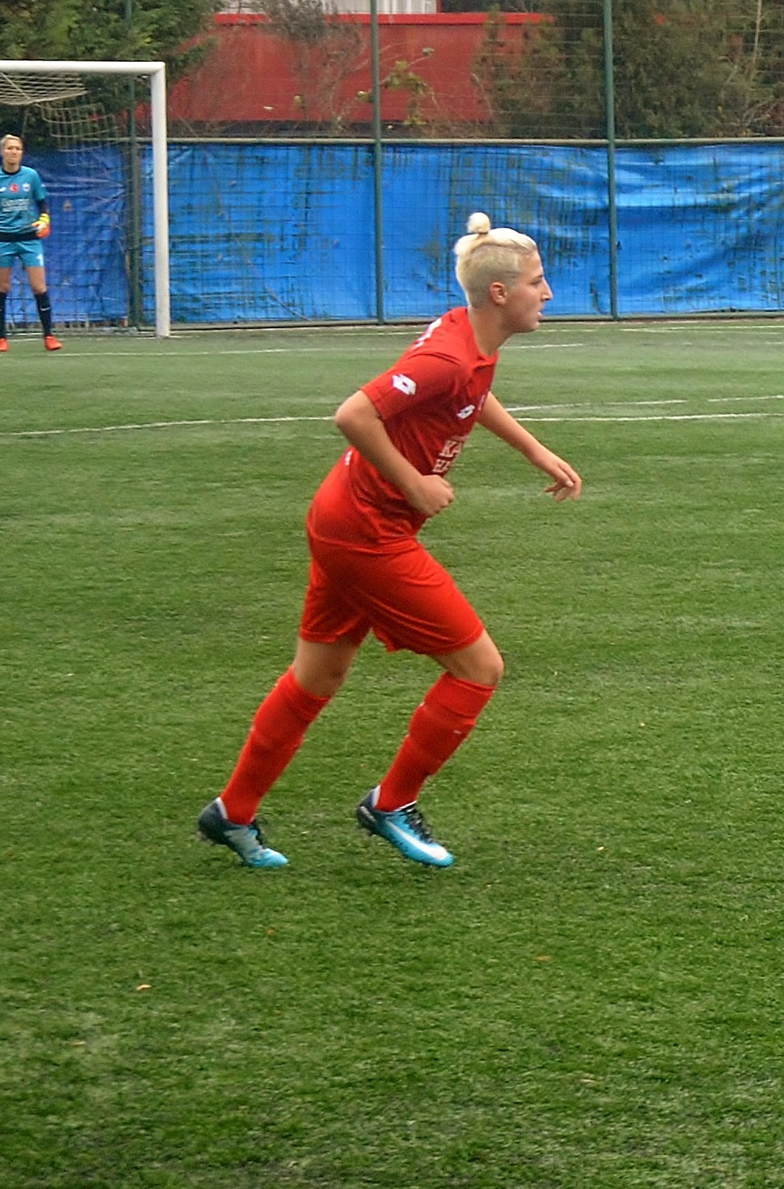 Kader Hançar playing for Konak Belediyespor against Beşiktaş J.K. in the 2017-18 season's away match.